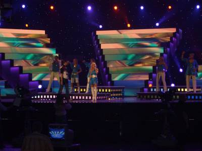 Estonia rehearsing at Eurovision 2006. Taken by Chris Melville.